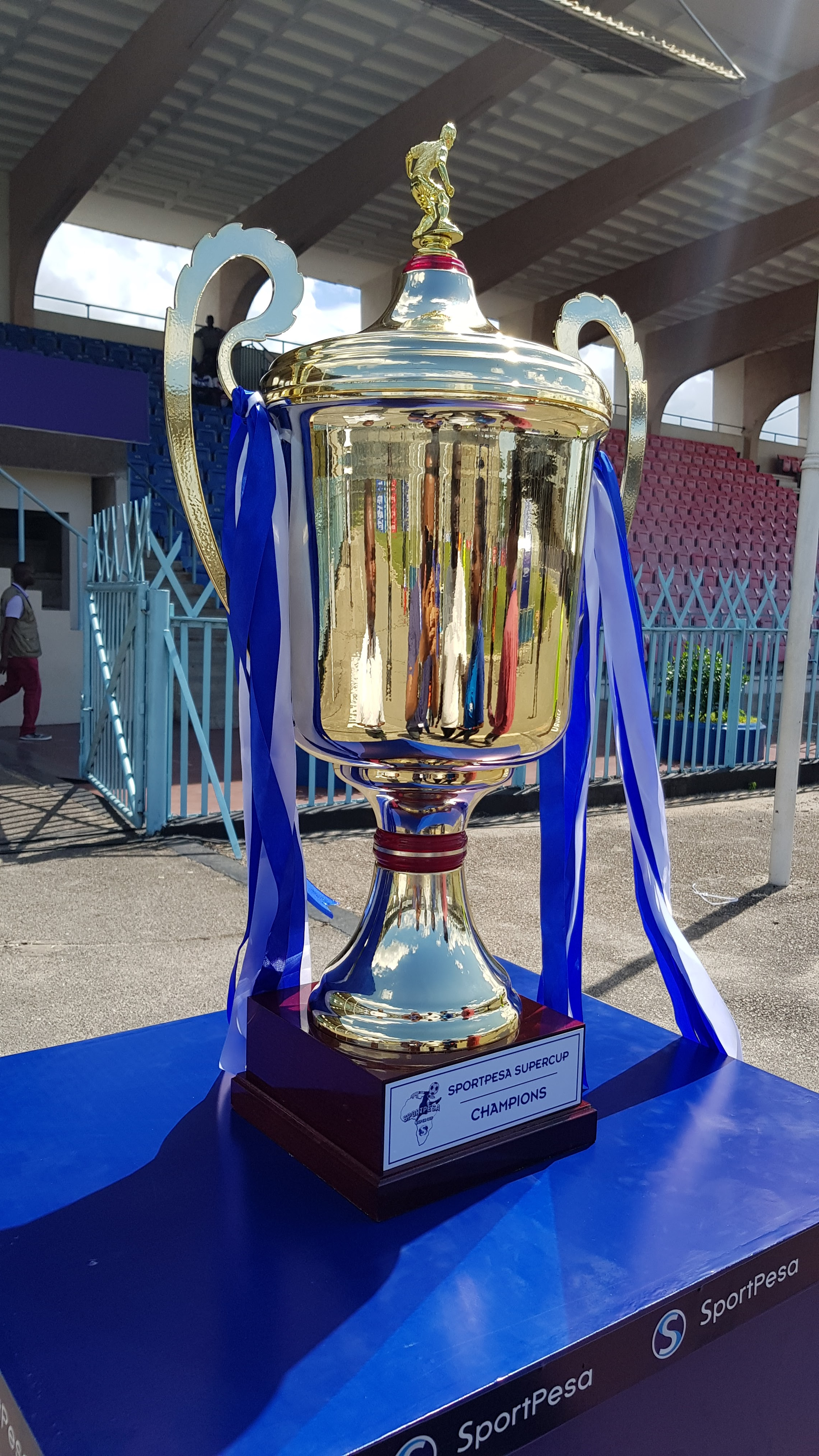 This is the 2017 Sportpesa Super Cup Trophy